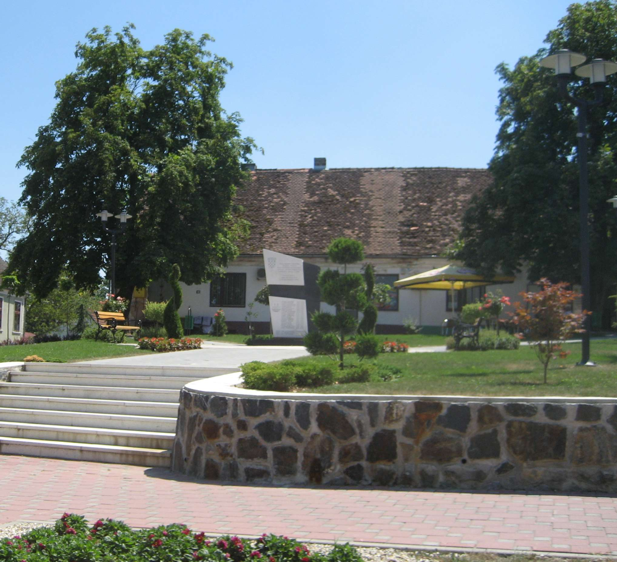 Memorial in Cazma, Croatia